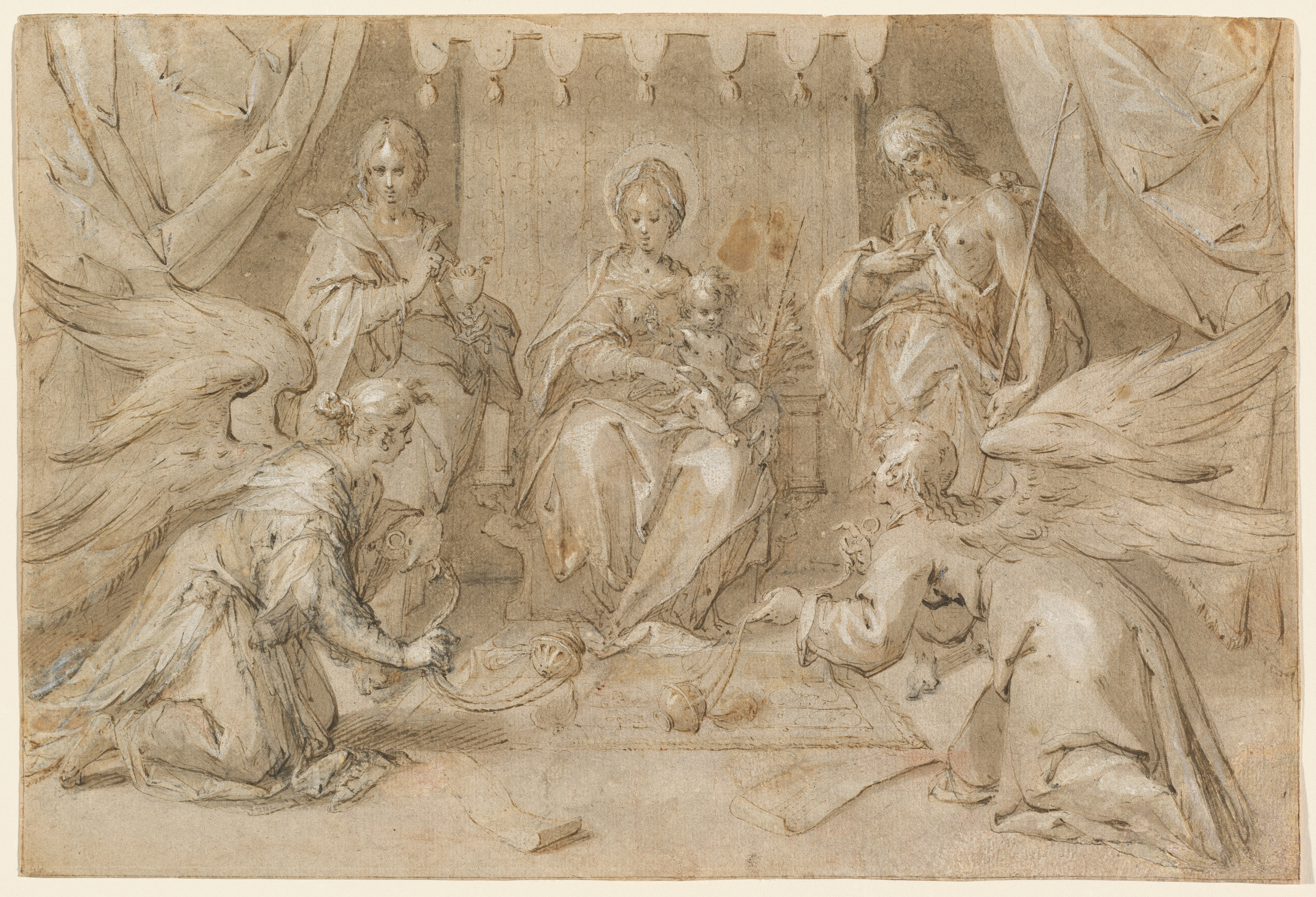 The Madonna Enthroned with Saint John the Baptist and Saint John the Evangelist